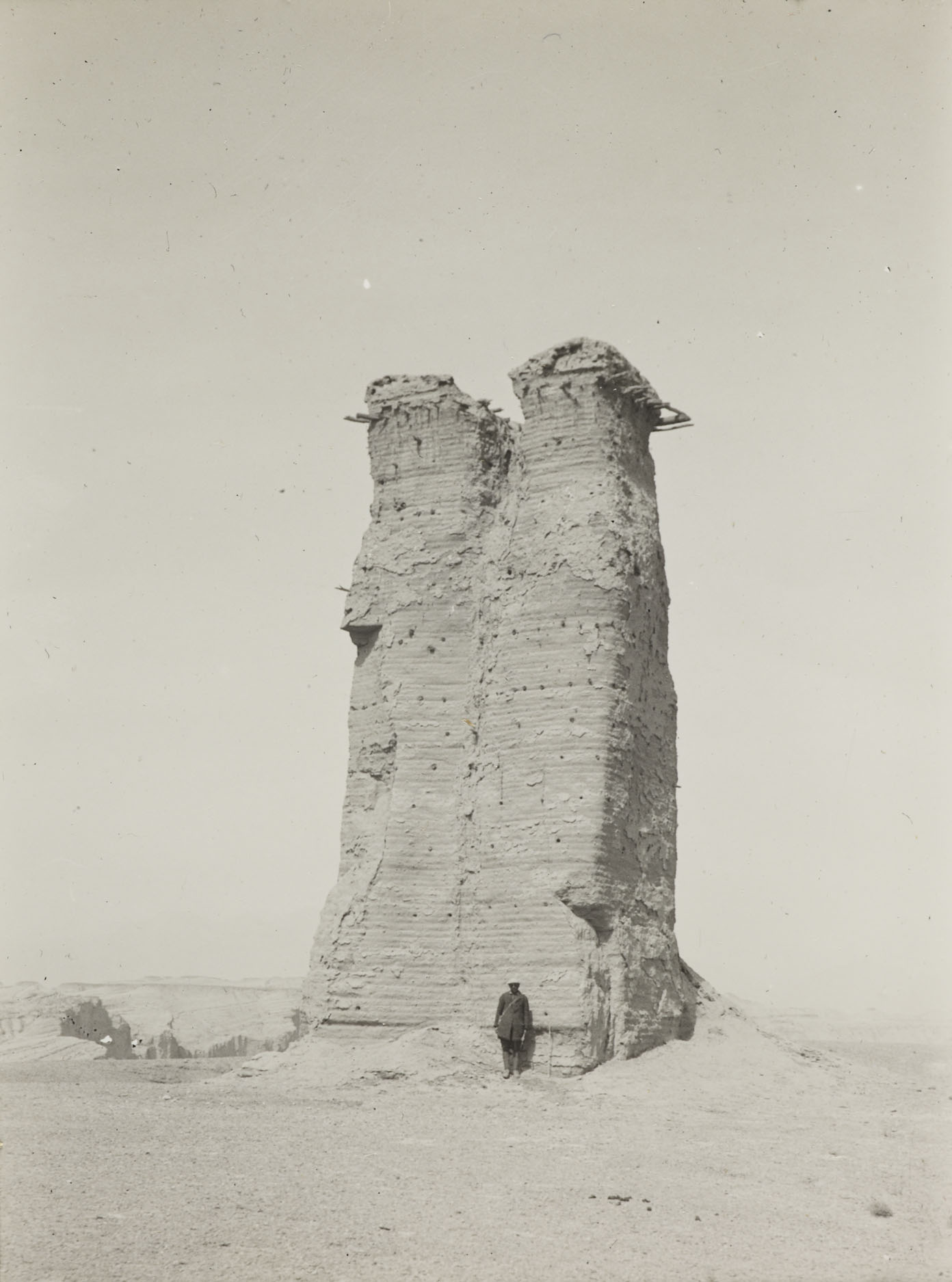 Tower at Shaldrang, Kucha, from southeast (Sohrab and measure [at base]), 1 April 1931.